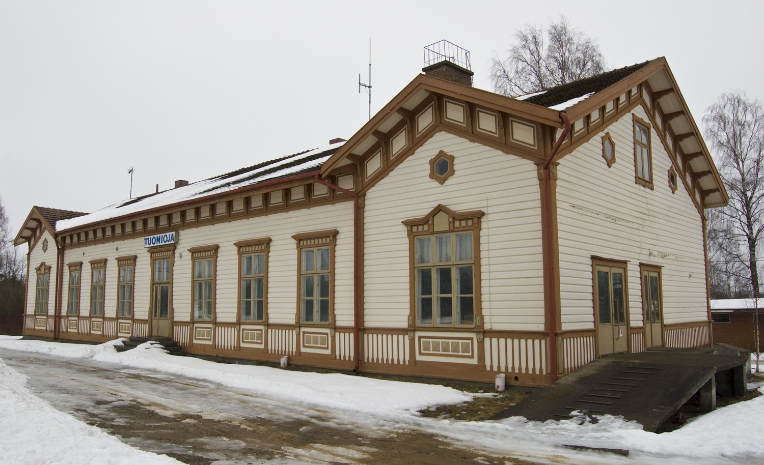 Tuomioja railway station, Siikajoki, Finland.